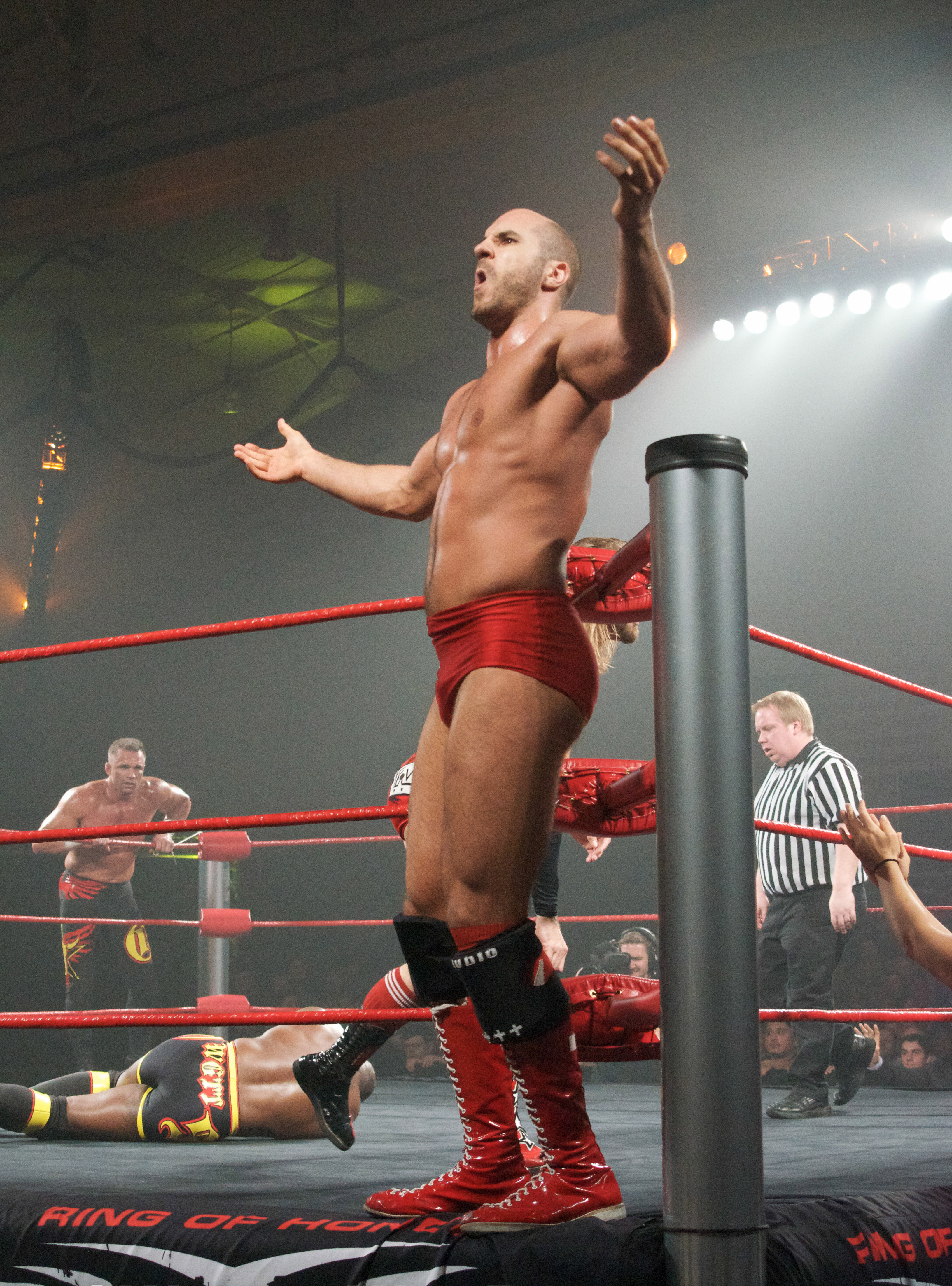 Claudio Castagnoli at a Ring of Honor show on AUgust 13, 2011.